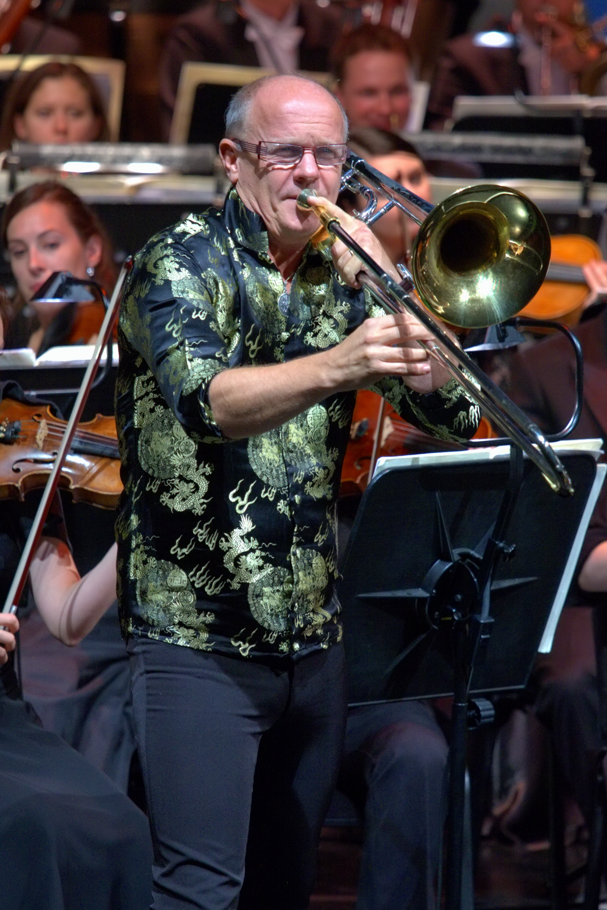 KRAKÓW, POLSKA – 11 WRZEŚNIA: Puzonista Christian Lindberg ze Szwecji podczas koncertu 15. Last Night of the Proms in Cracow, który odbył się w gmachu Opery Krakowskiej 11 września 2010 w Krakowie, Polska. (foto: Wojciech Migda)